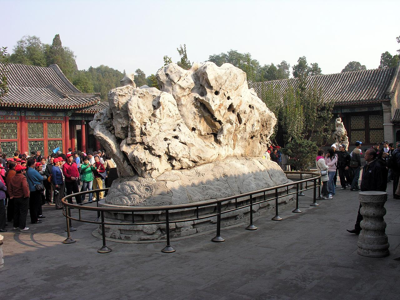 The "Blue Iris Stone" in the courtyard of The Hall of Happiness and Longevity — at the Summer Palace, Beijing. This is the largest Scholar's rock in any Classical Chinese garden. Emperor Qianlong of the Qing Dynasty had it moved to this place at much expense, and named it “Blue Iris Stone.”